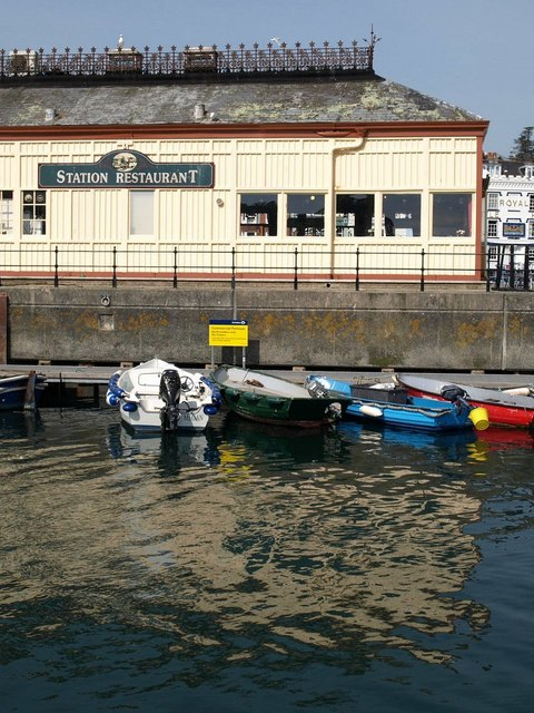 Dartmouth railway station Original description: Dartmouth Station See SX8751 : Dartmouth station and Boat Float. The restaurant's colour is reflected in the waters of the River Dart. Taken from the pontoon where the foot ferry disembarks.